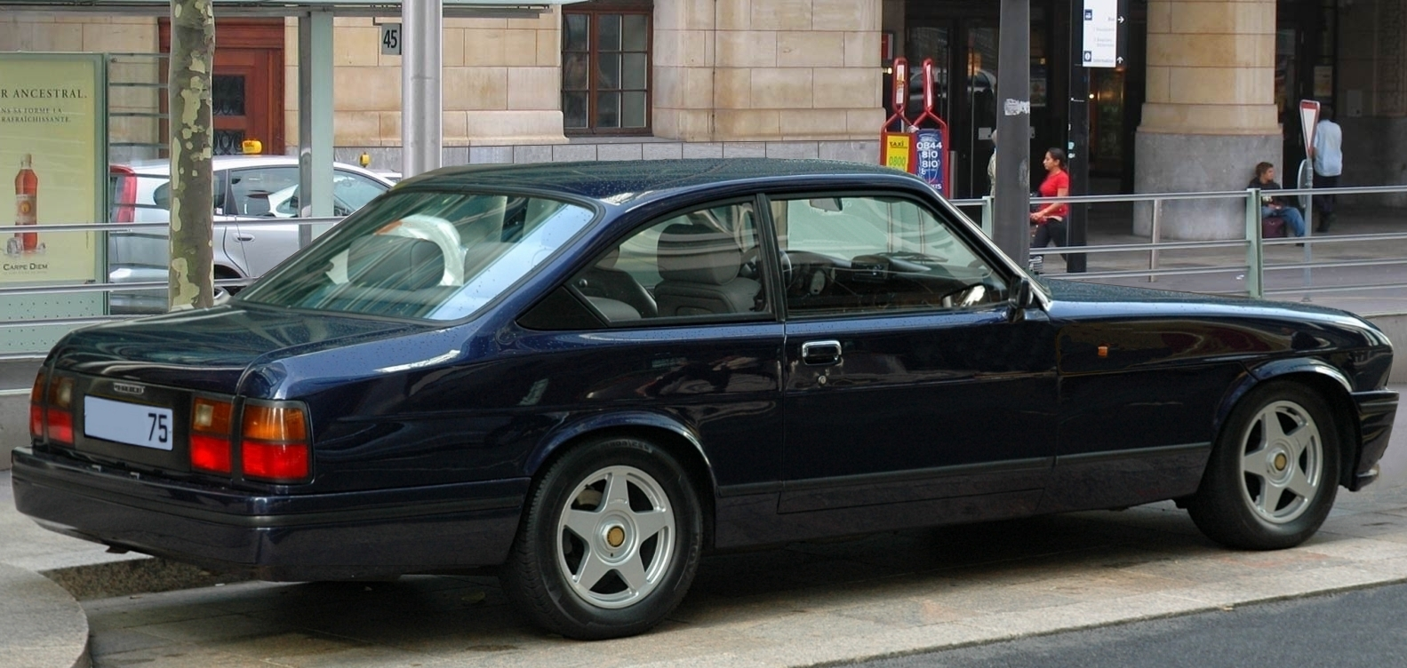 Bristol Blenheim 3S in Geneva (cropped version)